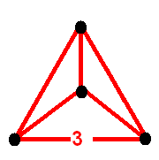 5-cell vertex figure